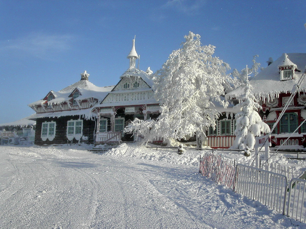 Libušín chalet in the Moravian-Silesian Beskids in the Czech republic in winter